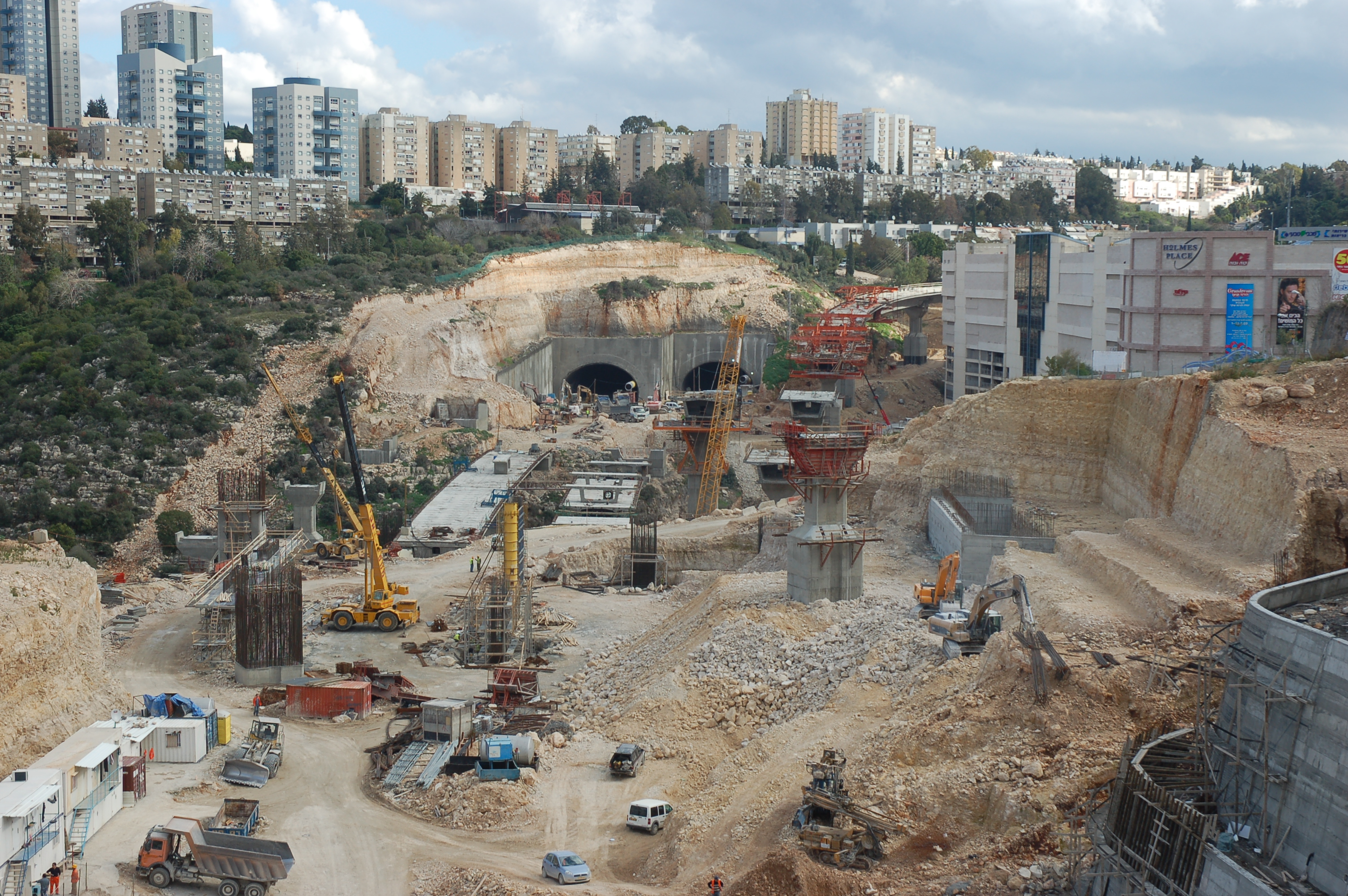 Construction works on Rupin interchange, Part of the Carmel Tunnels in Haifa, Israel. Grand Canyon mall is seen on the right.